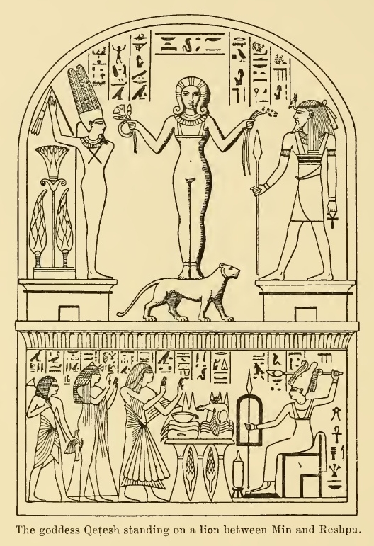 The goddess Qetesh standing on a lion between Min and Reshpu. A scanned image from The Gods of the Egyptians by E. A. Wallis Budge (1904) p. 276